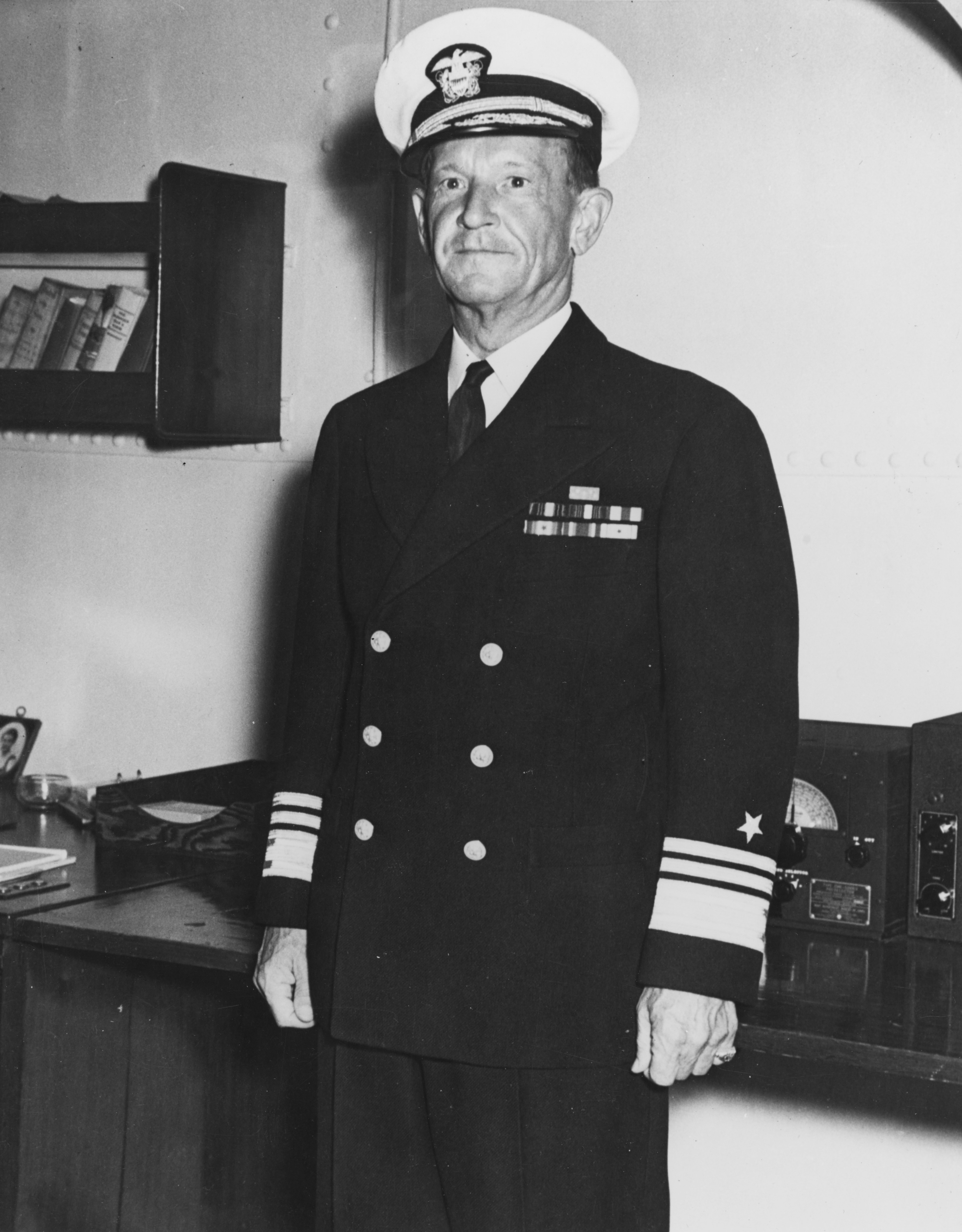 Admiral Frank Jack Fletcher in September 1942